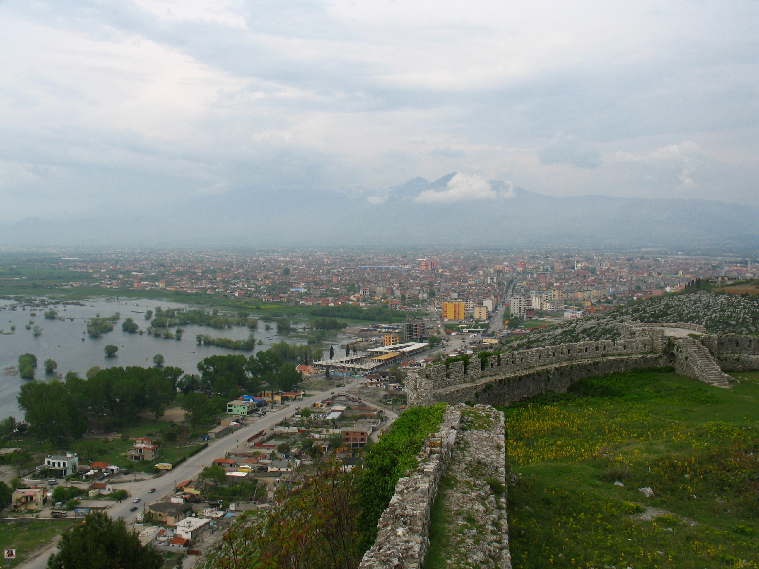 Town of Scutari, main town in northern Albania